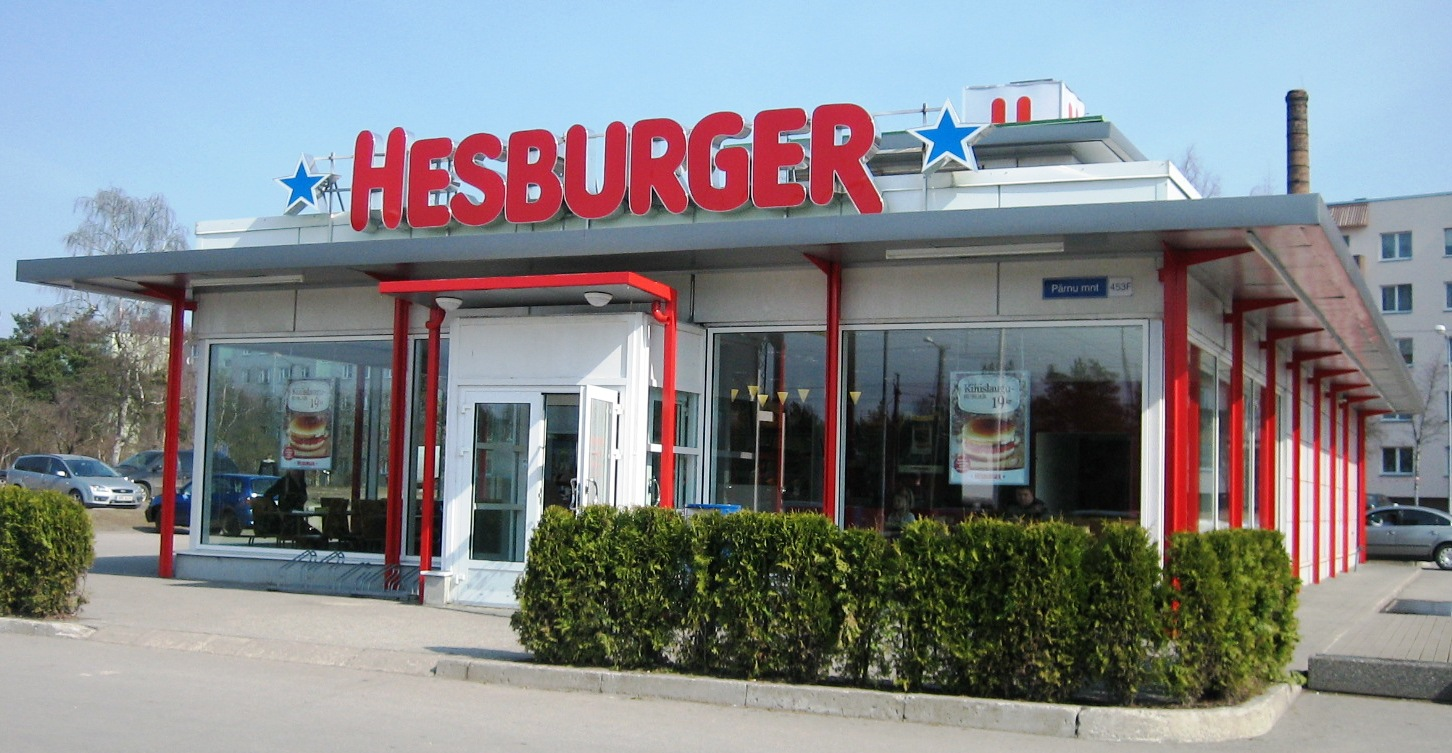 Hesburger Restaurant Laagri in Tallinn, 453F Pärnu mnt